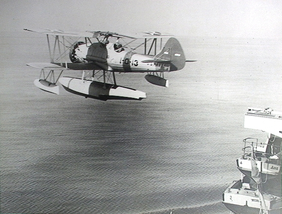 A U.S. Navy Vought O3U Corsair floatplane from Observation Squadron VO-1 is catapulted from the battleship USS Arkansas (BB-33).